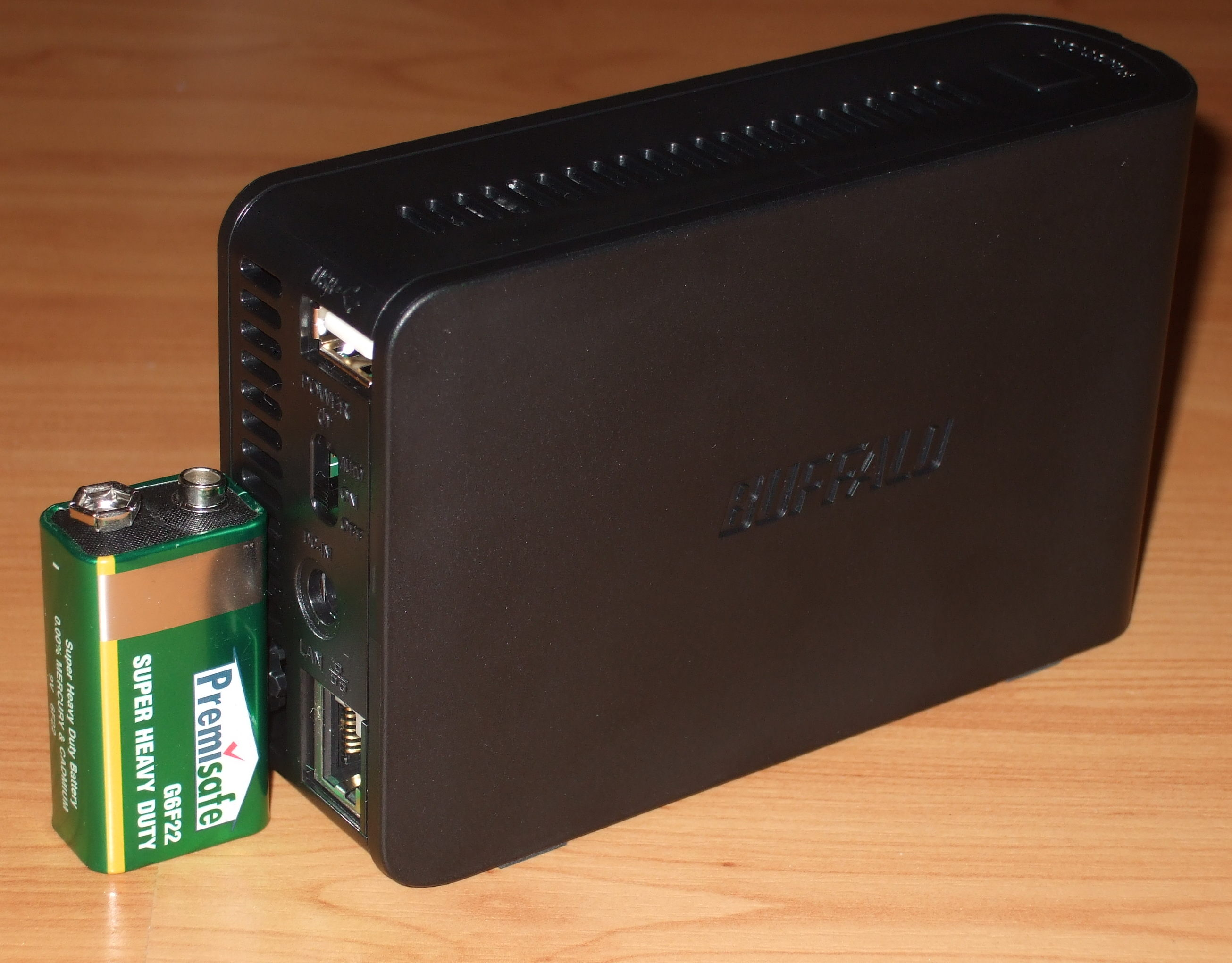 The Buffalo LinkStation Mini (LS-WSGL/R1) with a PP3 battery on the left side. This should show the small size of the NAS with its two 2.5" harddisks.